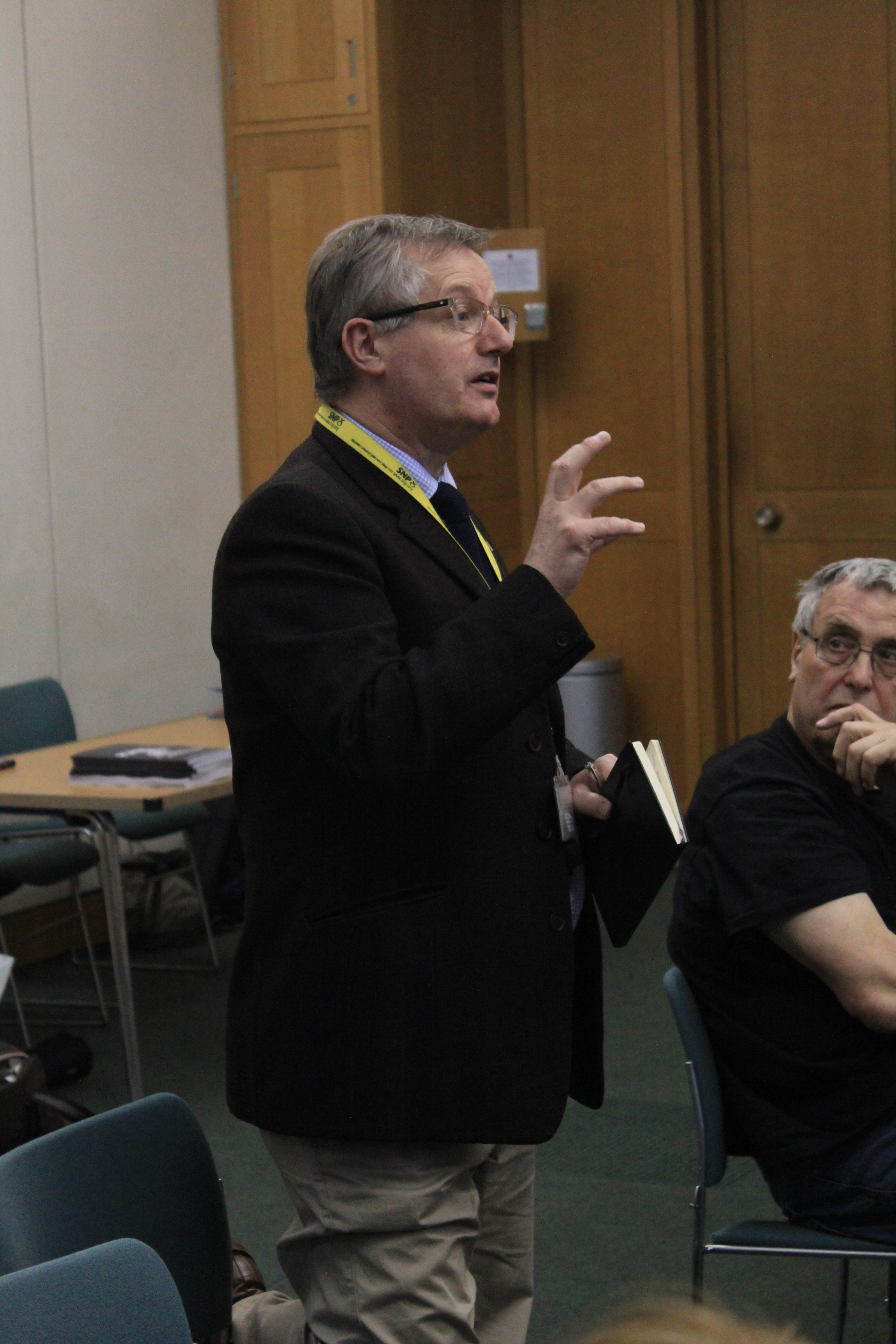 Brendan O'Hara speaking at the Playing With Fire report launch at Portcullis House in February 2017